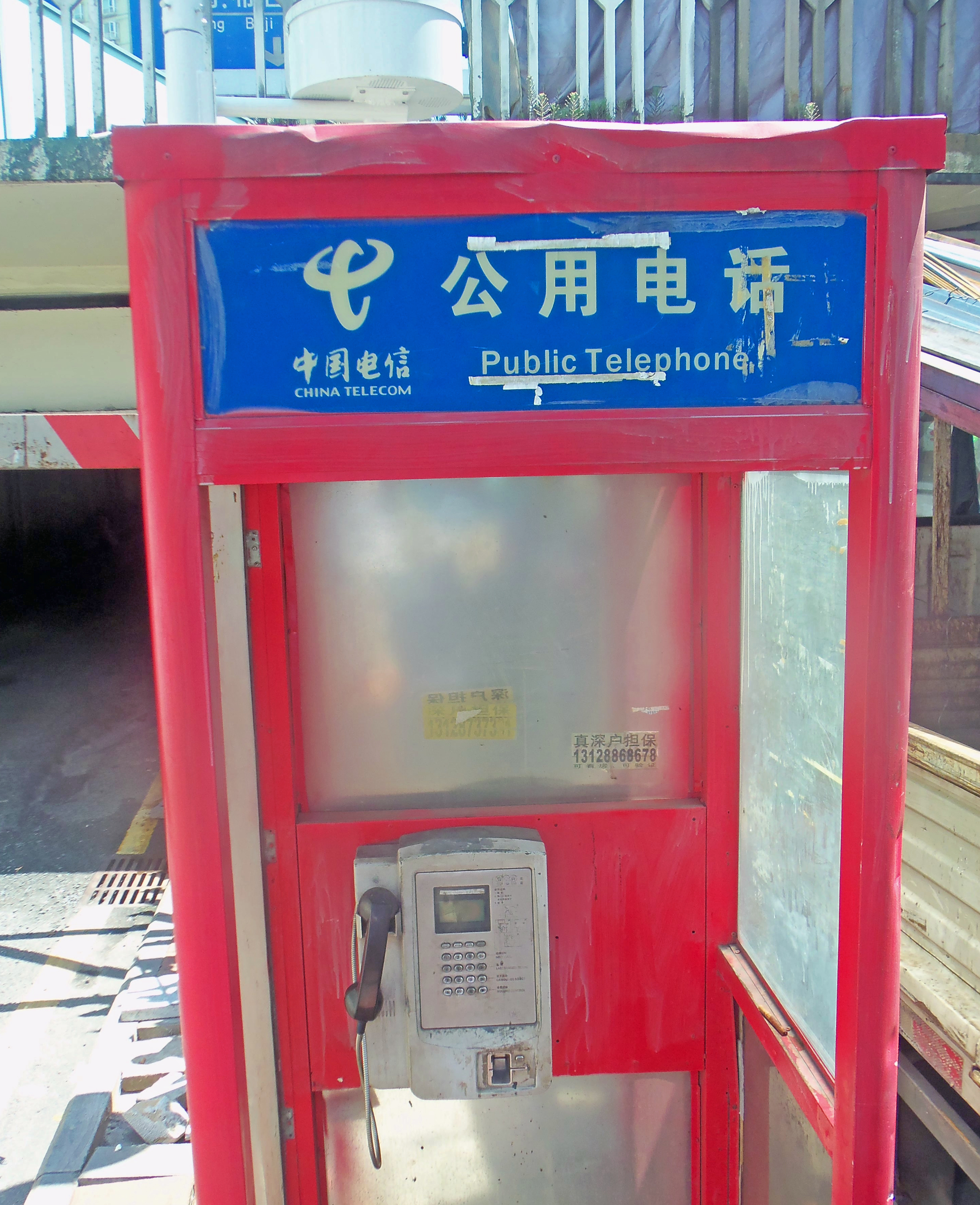 Phone booth near the intersection of Middle Dongmen and Third roads in the Luohu District